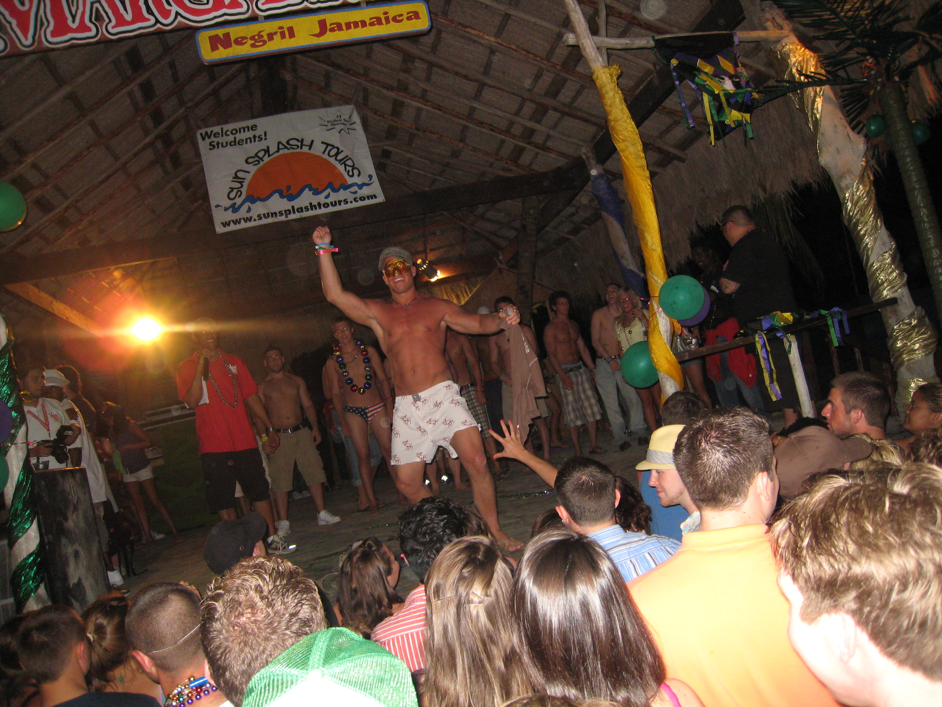 Hyper-masculinity exemplified on Spring Break